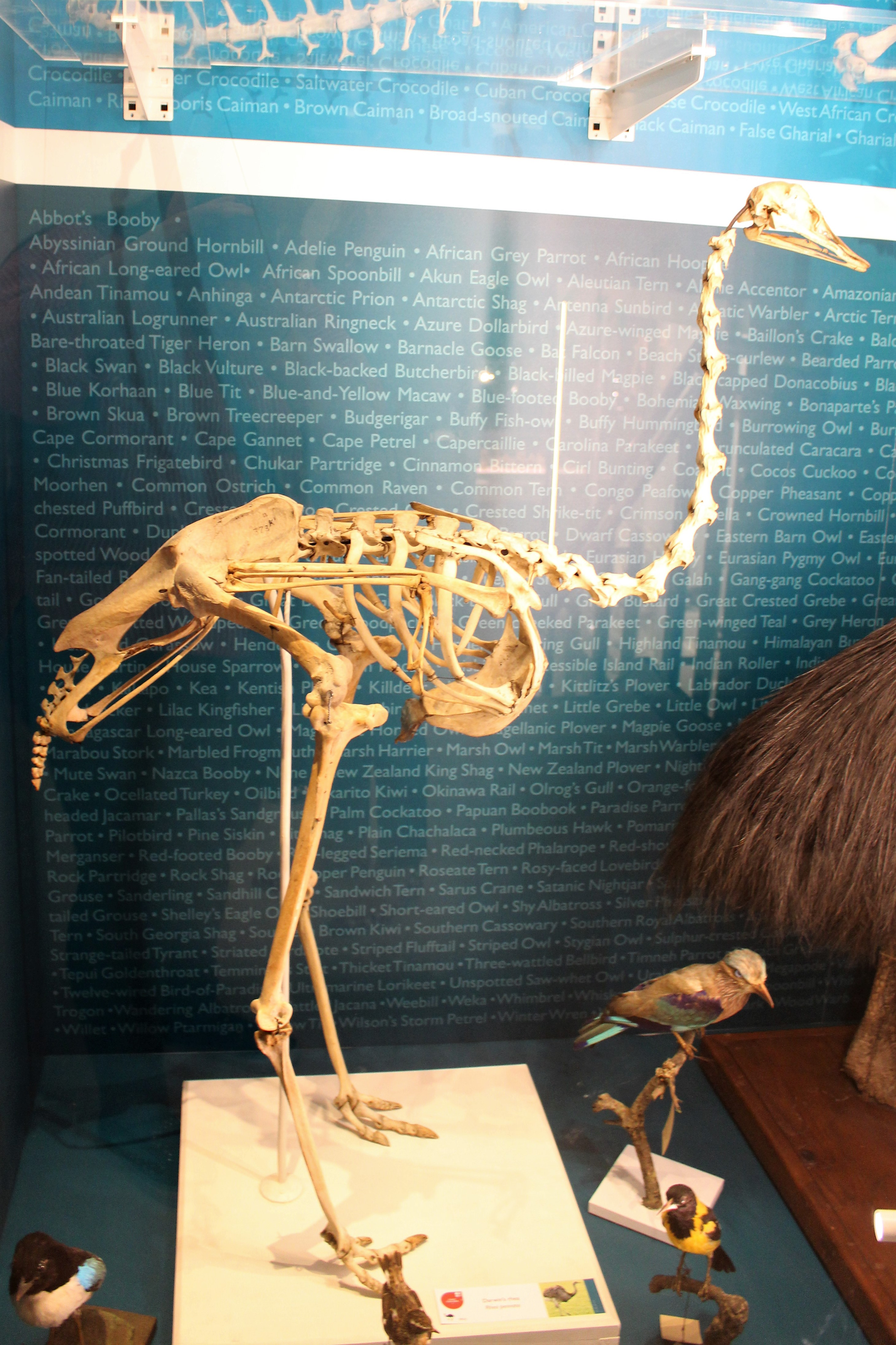 Darwin's rhea or lesser rhea (Rhea pennata) skeleton at the Cambridge University Museum of Zoology, England.